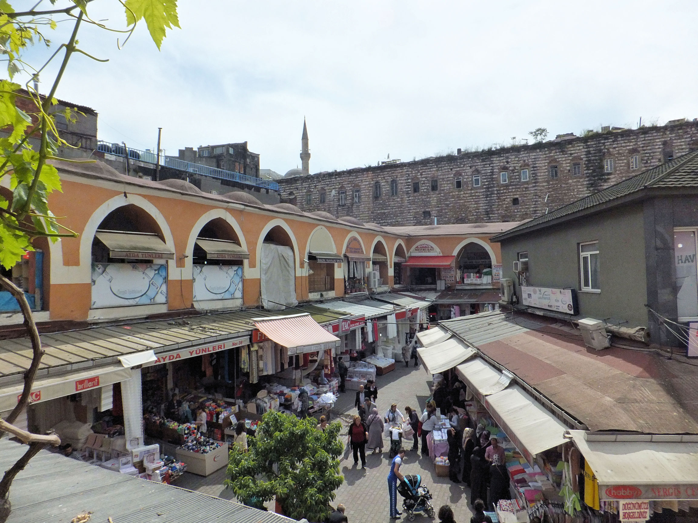 Kürkçü Han courtyard; the tall stone building in the background is the exterior wall of the Büyük Yeni Han